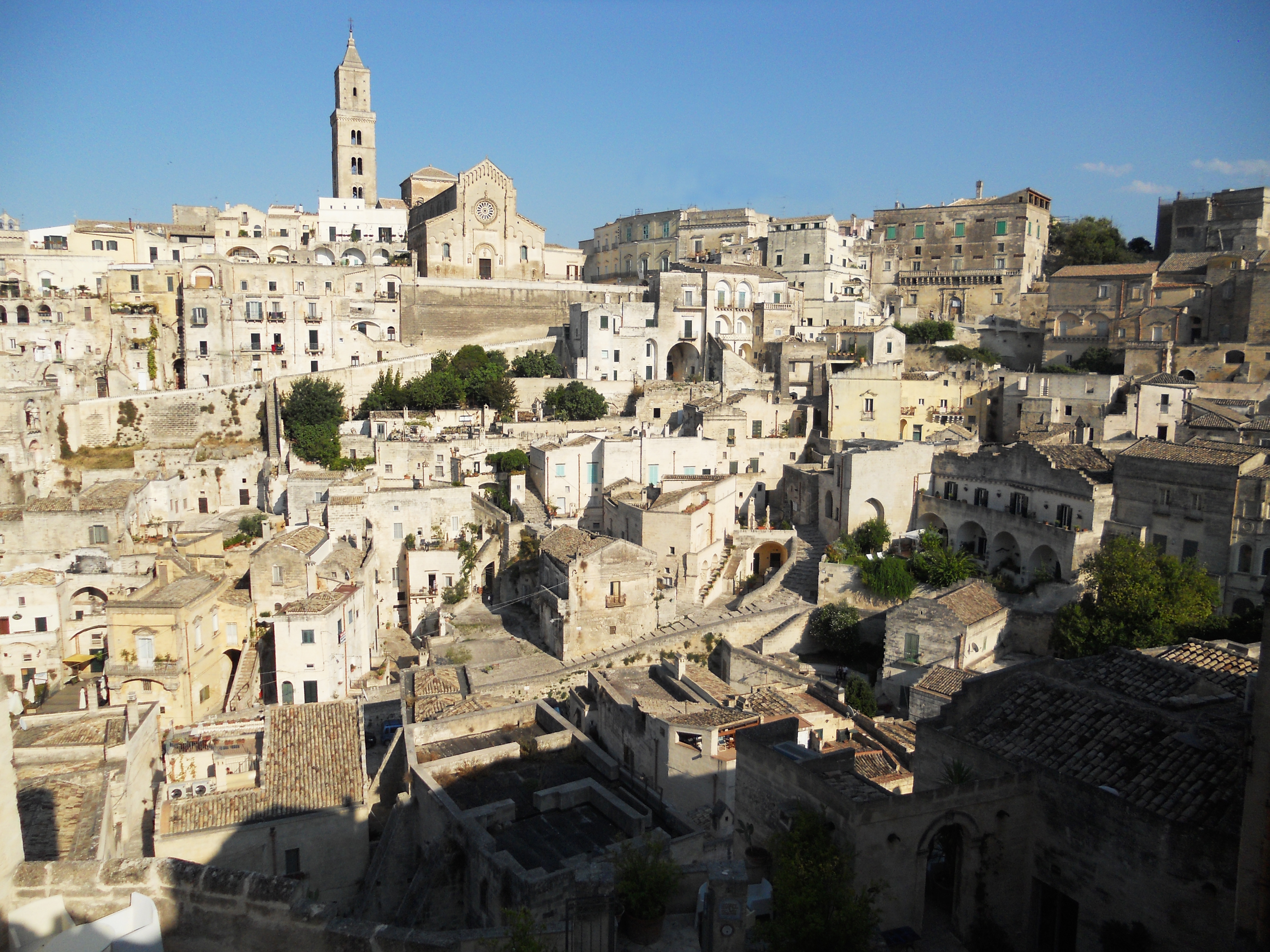 The "Sassi di Matera", site UNESCO site heritage (ITALY)